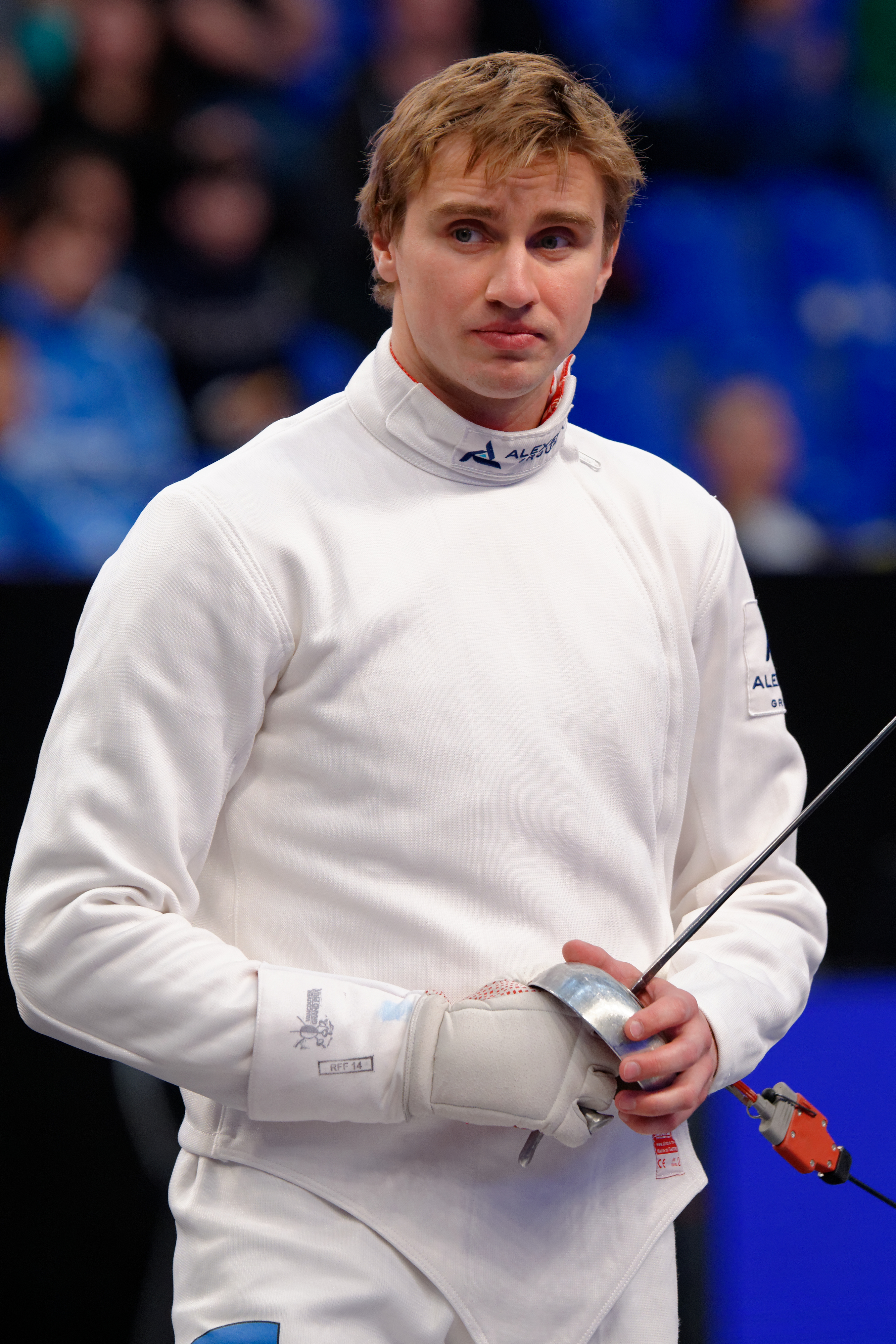 Estonia's Nikolai Novosjolov during his T16 match against Pavel Sukhov from Russia at the 2014 Challenge RFF-Trophée Monal, a men's épée World Cup event, on 3 May 2014.